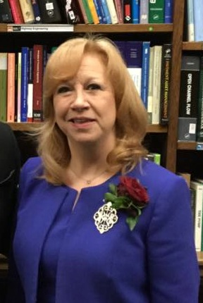 Eleanor in 2014